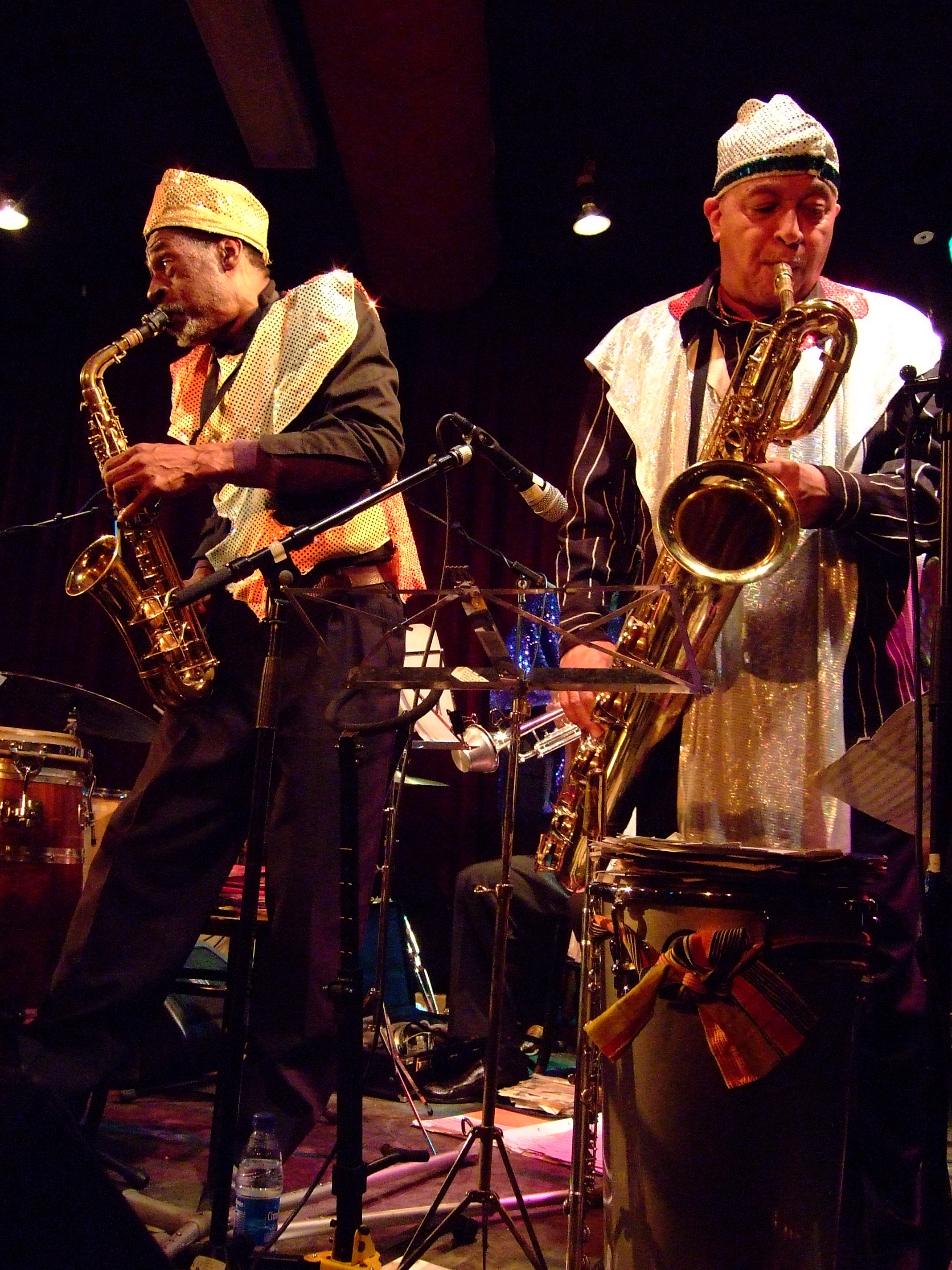 Knoel Scott (left) and Danny Ray Thompson of the Sun Ra Arkestra